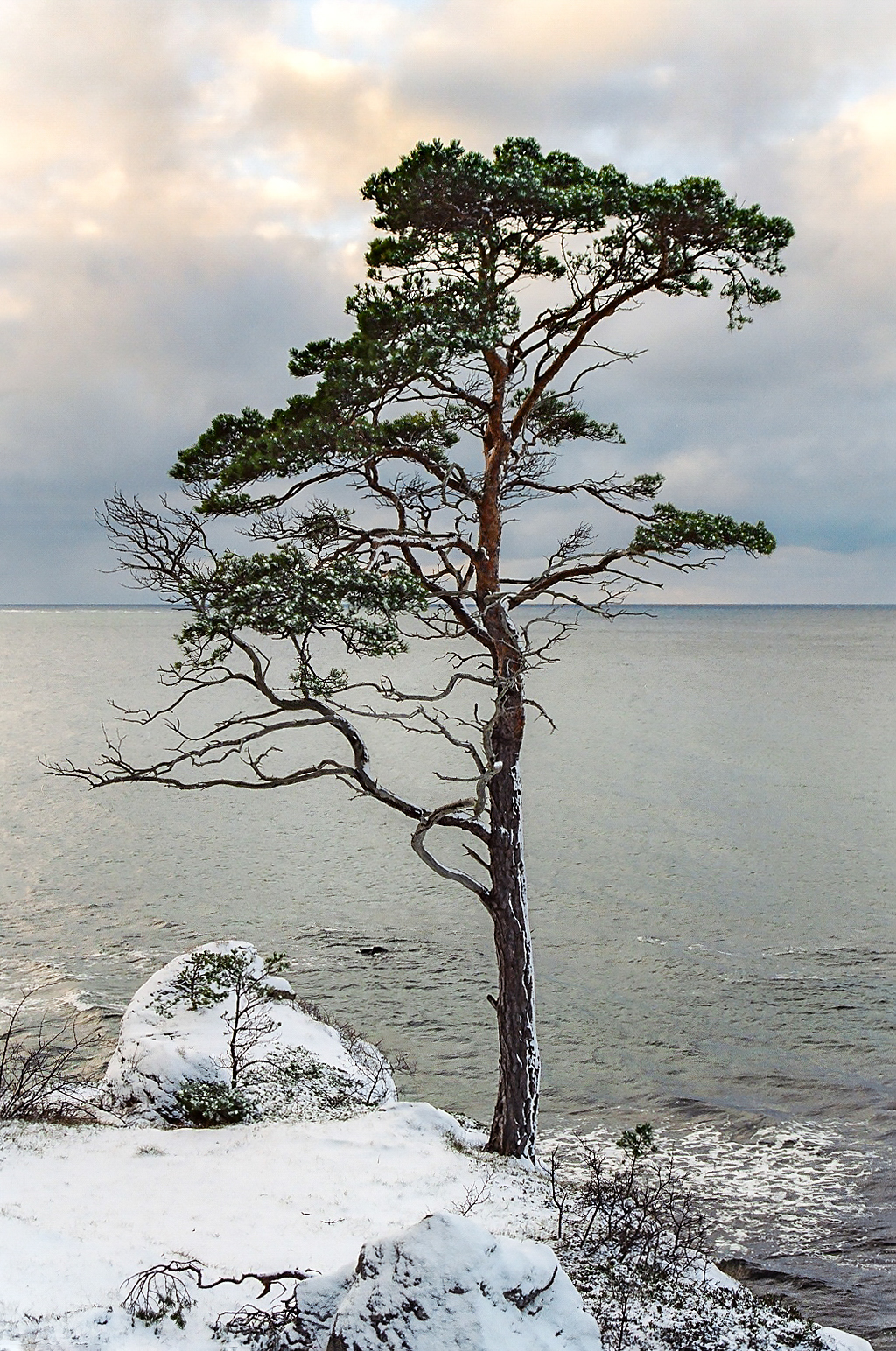 Pine at Sigsarve beach, northern Gotland